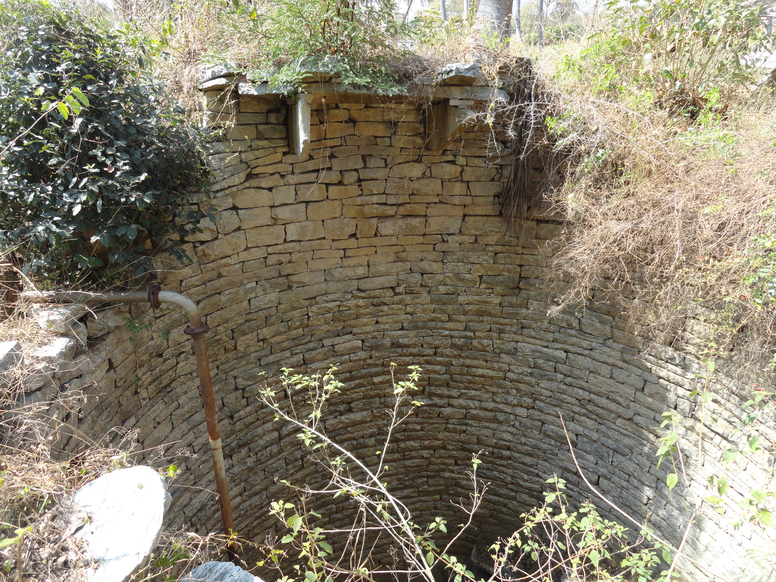 a dried up deep well with Motor connection and Olden Kapili Doruvu: picture taken at Venkatramapuram.